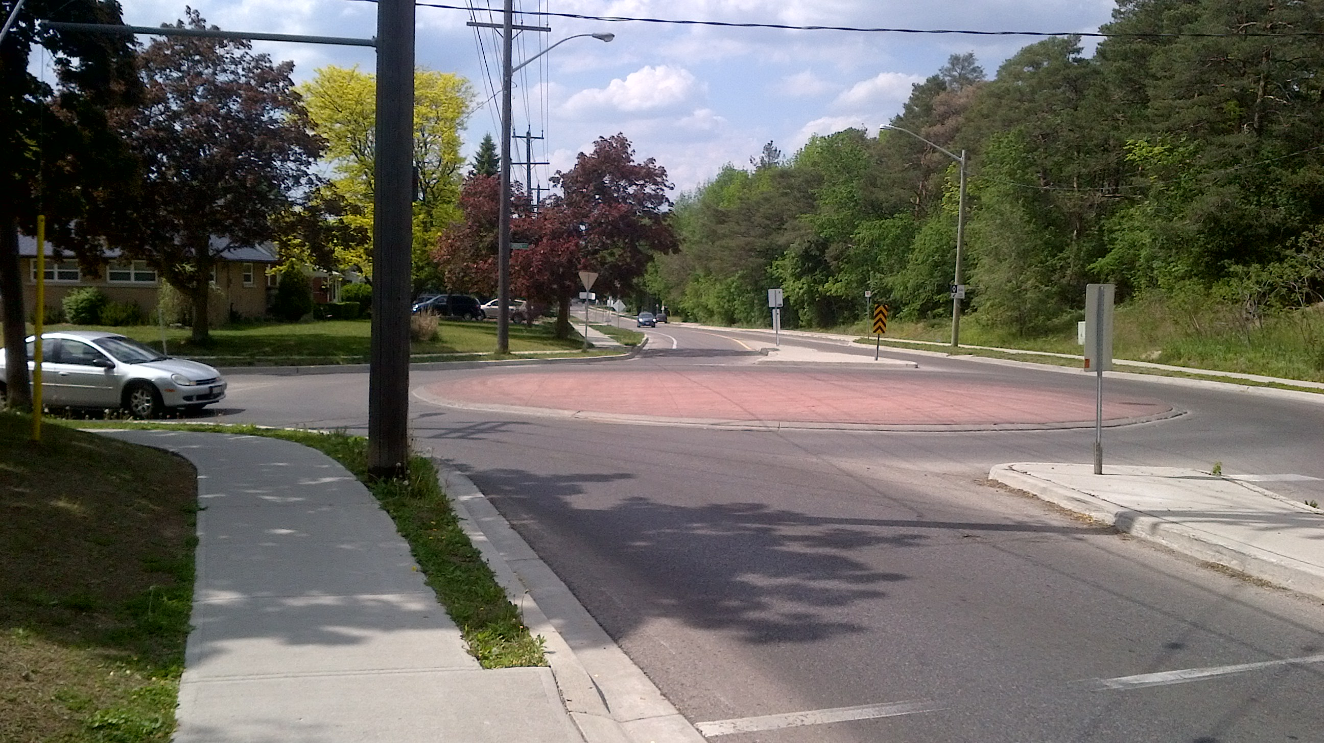 Smaller vehicles like cars go around the centre island, while larger vehicles, mainly public transit buses, will traverse the centre of the rather small mini-roundabout. The roads are in Waterloo, and to the right is Breithaupt Park in Kitchener.